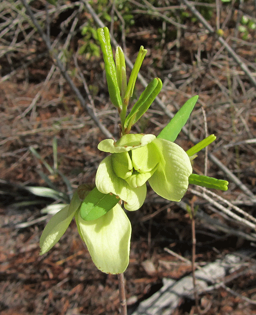 Found in Jonathan Dickenson State Park, Florida